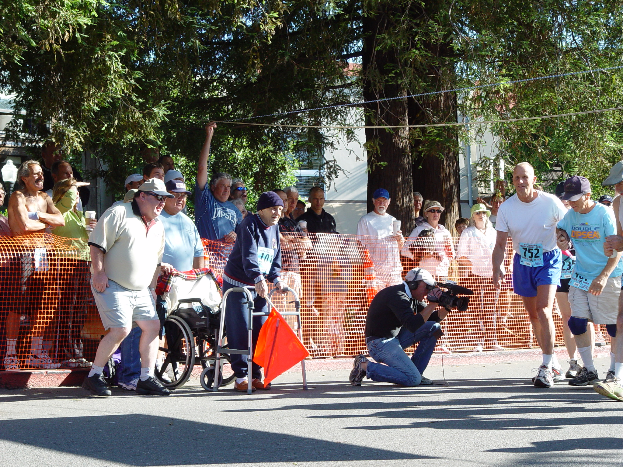 Jack Kirk (the "Dipsea Demon") completed 67 consecutive runs in the annual Dipsea Race in Mill Valley and on Mount Tamalpais, in Northern California. He ran in the races from 1930 to 2002, and was given the honor of starting the 2004 race.